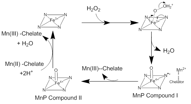 Sketch of manganese peroxidase mechanism from initial state to iron peroxide complex, and through compounds I and II. Here, the heme cofactor is represented via an iron-nitrogen complex. It should be noted that the Fe(IV) oxo-porphyrin radical resonates throughout the heme.